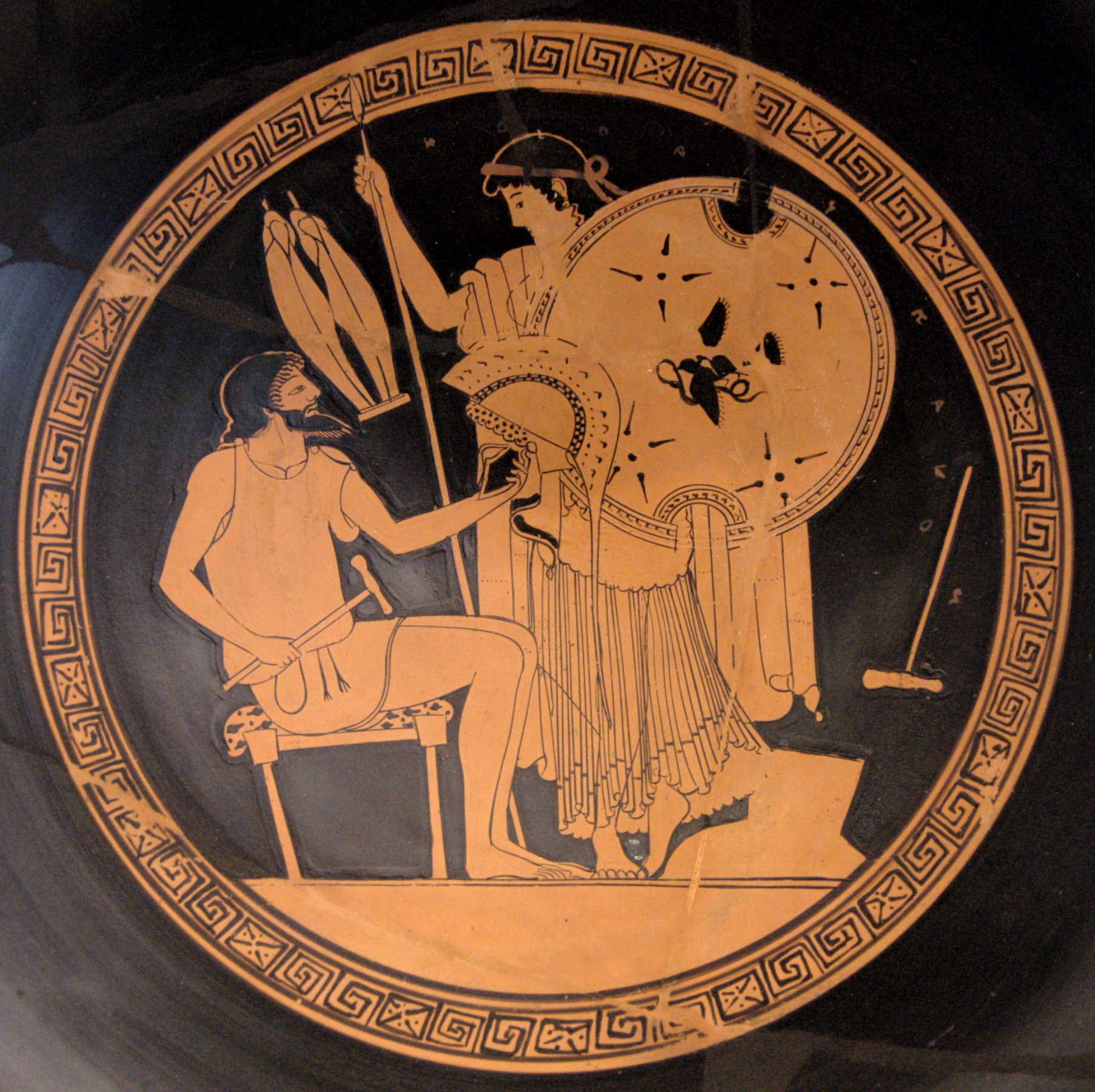 Hephaestus hands in the new Achilles' armor to Thetis (Iliad, XVIII, 617). Attic red-figure Kylix, 490–480 BC.